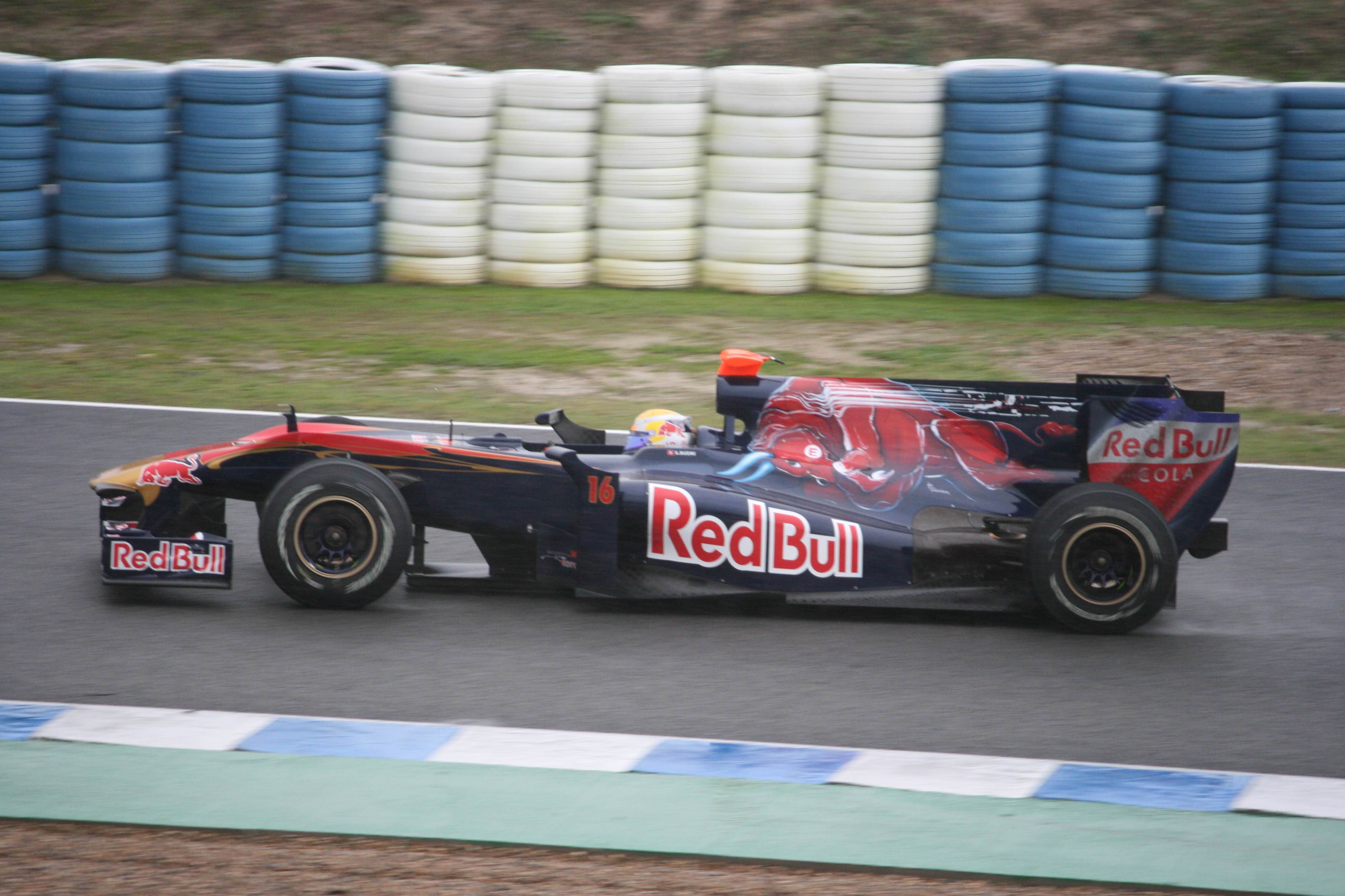 Sébastien Buemi testing for Scuderia Toro Rosso at Jerez, 10/02/2010.